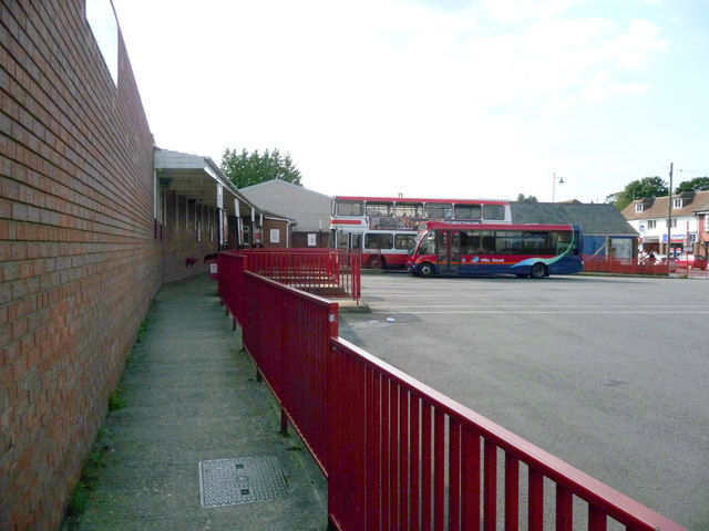 Amesbury - Bus Station Amesbury's newly refurbished bus station.